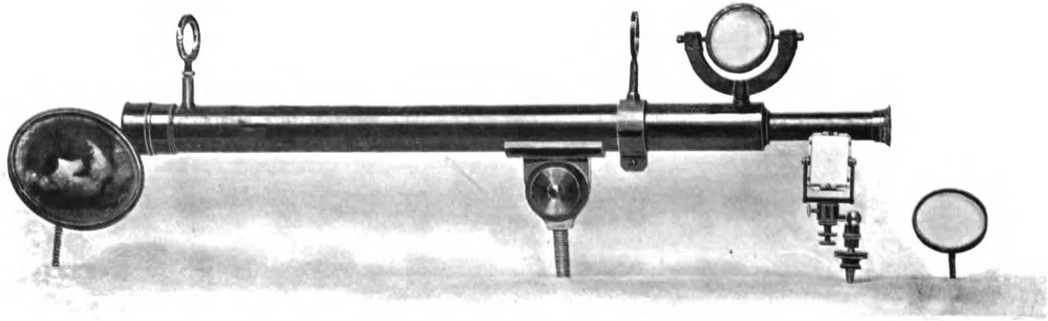 Volume II Plate XXXVIII, Figure 1 - between pp. 286 & 287 of 1898 publication called Maryland Geological Survey Volume Two. Caption:Heliotrope This photograph shows three types of heliotrope: (a) "the simplest form", (b) Coast Survey Type, (c) Steinheil heliotrope. These three types and their means of use are described in detail in the text of the book, from the bottom of p. 290 through the end of p. 291[1]. The "simplest form" is the round mirror at far right: "Heliotropes ... are simply instruments for reflecting the sunlight to the observer at the instrument. The simplest form is a circular mirror with a screw hinged at back, giving it a universal motion." The Coast Survey type is everything but the two small mirrors at right: " ... the Coast Survey type ... consists of a telescope which is provided with a screw for fastening it into any convenient support." {"Coast Survey"} The Steinheil heliotrope is the small rectangular mirror at right: "The Steinheil heliotrope ... consists of a small sextant mirror ... This mirror has a small hole in the center ... The mirror is so mounted that it has four different motions, two about its horizontal axis and two about its vertical axis ..." {"Steinheil heliotrope"